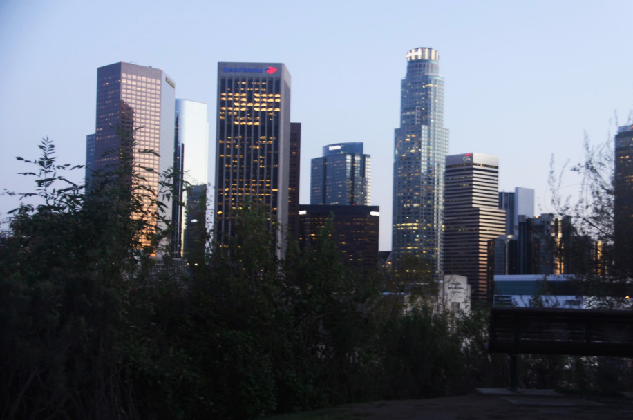 View of Downtown Los Angeles from Vista Hermosa Park.